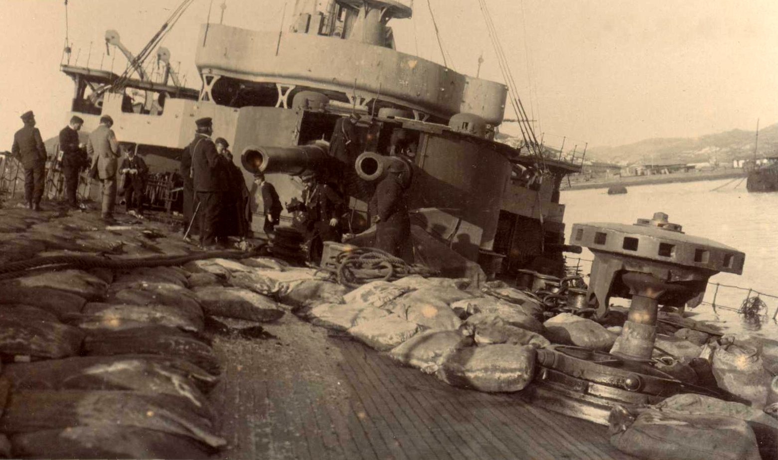 A russian Pobeda battleship half-sunk in Port Arthur (Russian Empire), photographed on January 4 1905 (the day after the Japanese conquested it), as it appeared to Italian Admiral Ernesto Burzagli (1873-1944), Italian naval attaché in Tokio, who sailed from Yokohama (Japan) on a diplomatic mission to Port Arthur, during the Russo-Japanese War. The original picture, scanned by Emiliano Burzagli, belongs to the Private archive of Burzaghi family, Italy. Note coal bags laid on a deck to minimize effect of falling artillery shells.